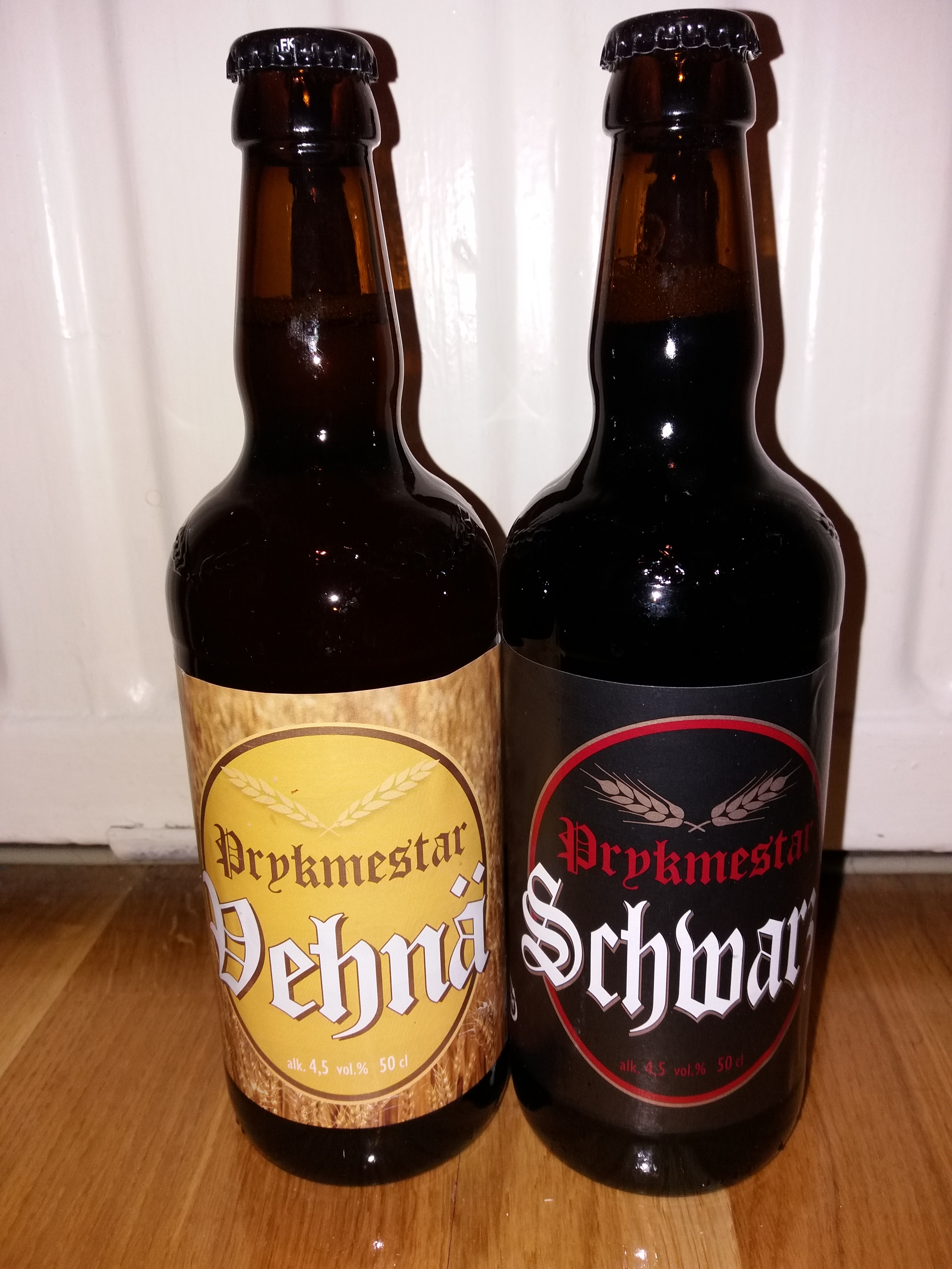 Vakka-Suomen Panimo's (a brewery in Uusikaupunki, Finland) two different beers, Prykmestar Vehnä (a wheat beer) and Schwarz (a schwarz beer)